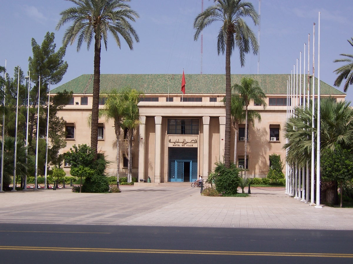 City Hall of Marrakech, Marocco